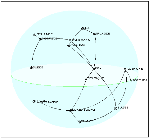 Correlation Iconography